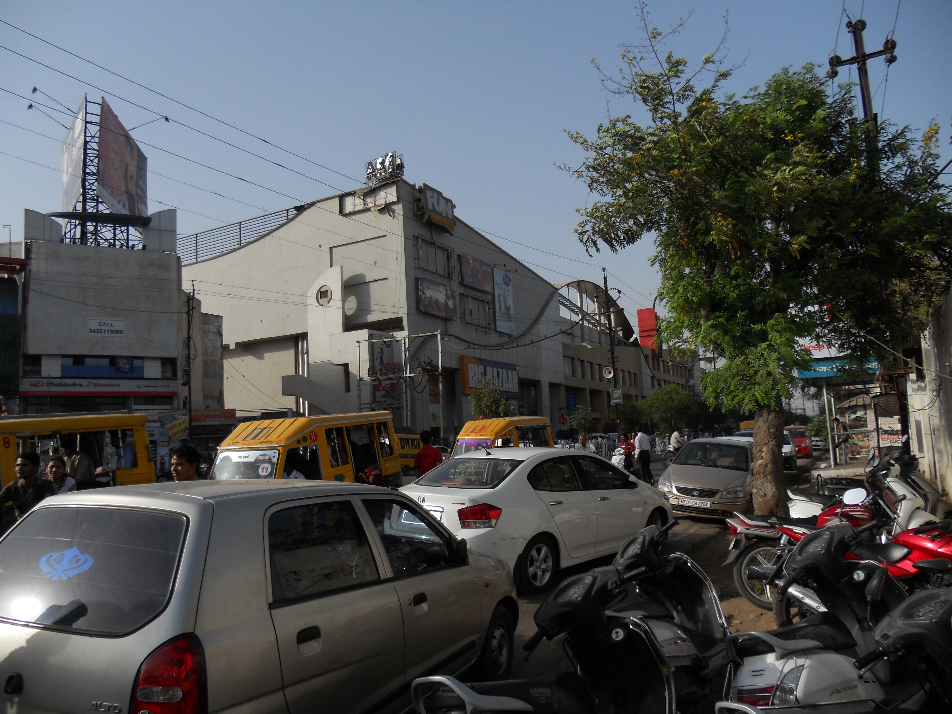 Road in front of DD mall